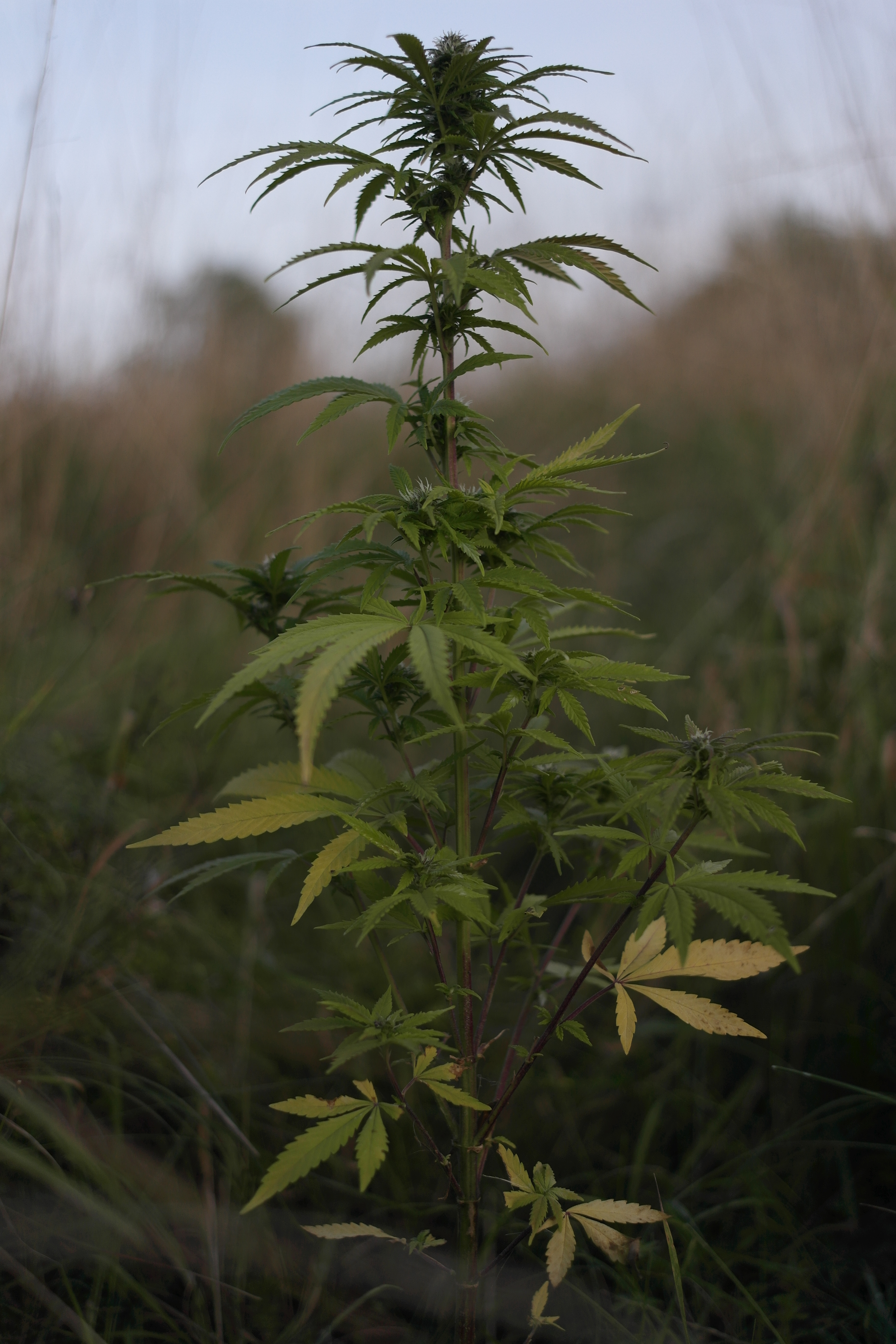 Flowering Cannabis plant. Scandinavia. Drug chemotype. Also called Cannabis ruderalis due to adaptation to northern latitude commonly known as autoflowering. Cannabis ruderalis was by Nikolai Vavilov (1926) considered to be synonymous with his own concept Cannabis sativa L. var spontanea Vav.